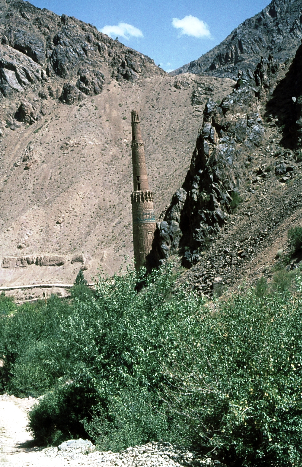 Minaret of Jam melts into rugged landscape